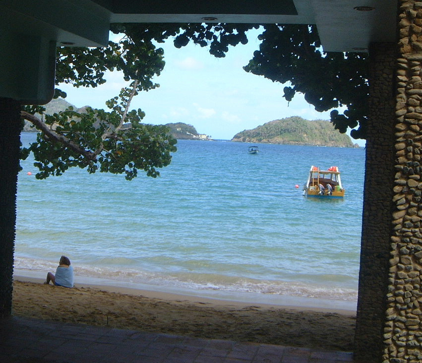 My Grand father built that house in Goat island. That house is an extremelly strong house it with standed stroms and hurricances. The house has a wonderful swimming pool which is very unique.there are people living in the house which cost 4mil.